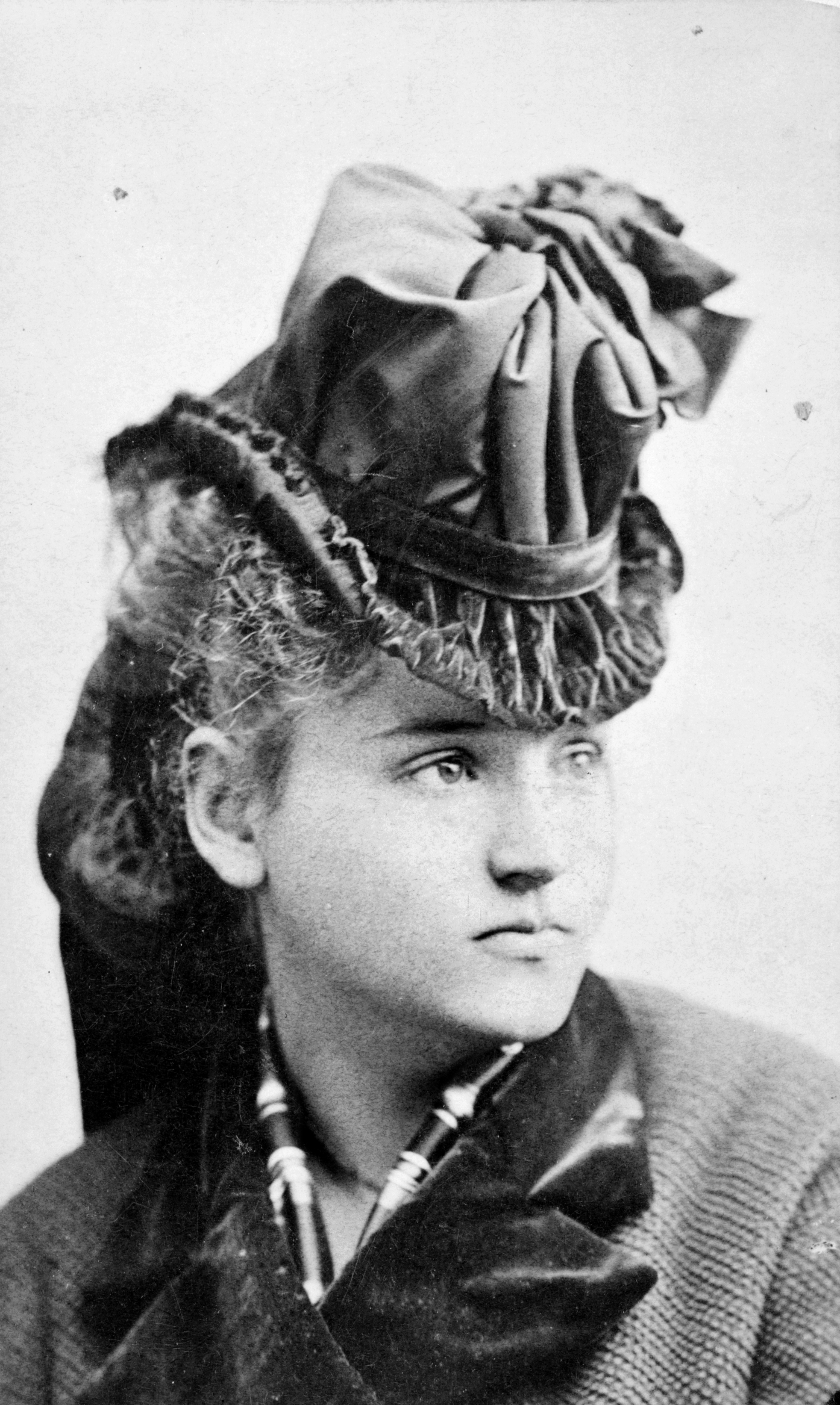 Tennessee Celeste Claflin.